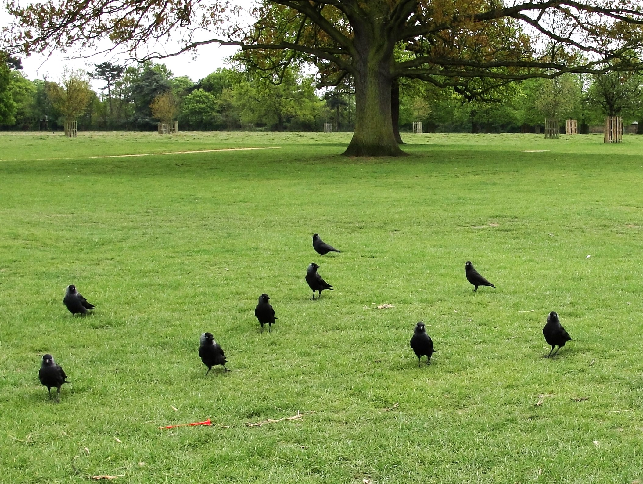 Several Jackdaws at Bushy Park, London Borough of Richmond upon Thames, England.